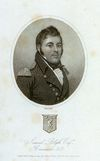 Portrait of Samuel Blyth who commanded HMS Boxer and was killed in the action with USS Enterprise in 1813.